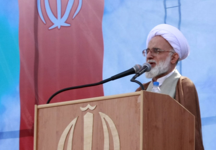 Ayatollah Jennati - Semnan - 2009